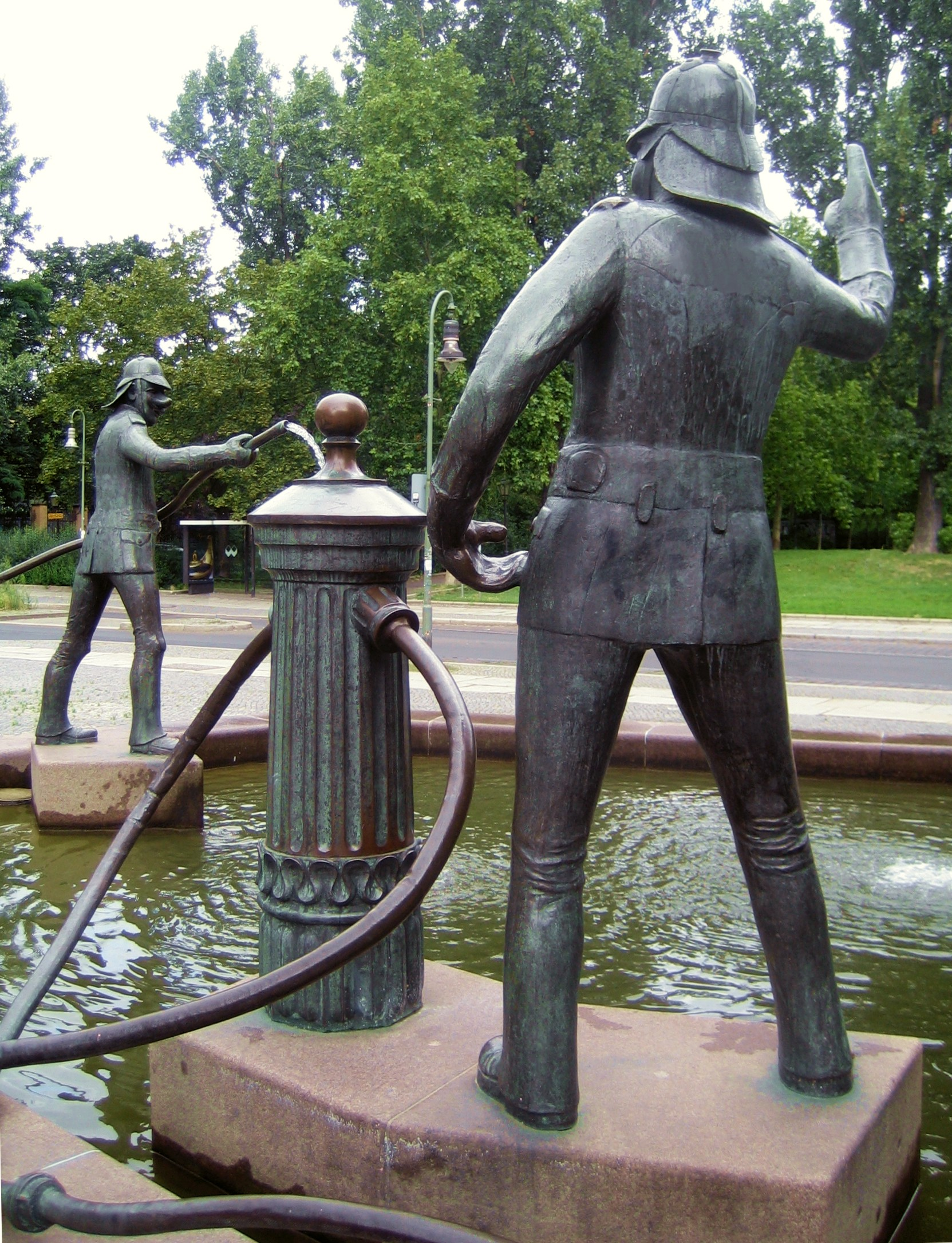 The "Feuerwehrbrunnen" (Firefighter-fountain) in Berlin-Kreuzberg. Design: Kurt Mühlenhaupt. Partial view.